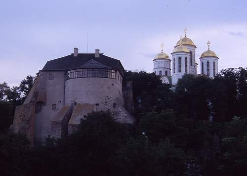 Castle of Ostrogski Princely house